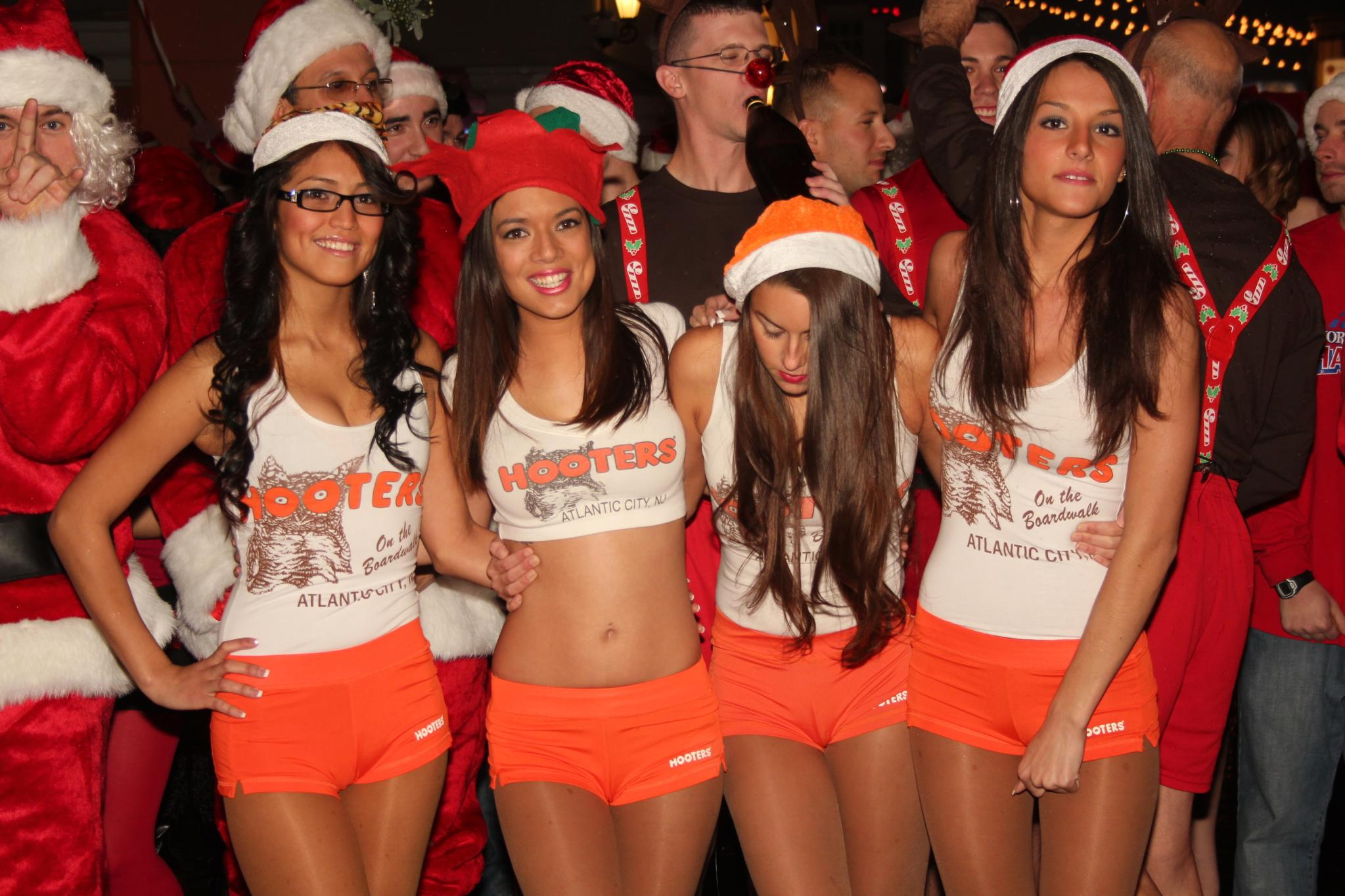 Hooters: Running of the Santas at Atlantic City, New Jersey.